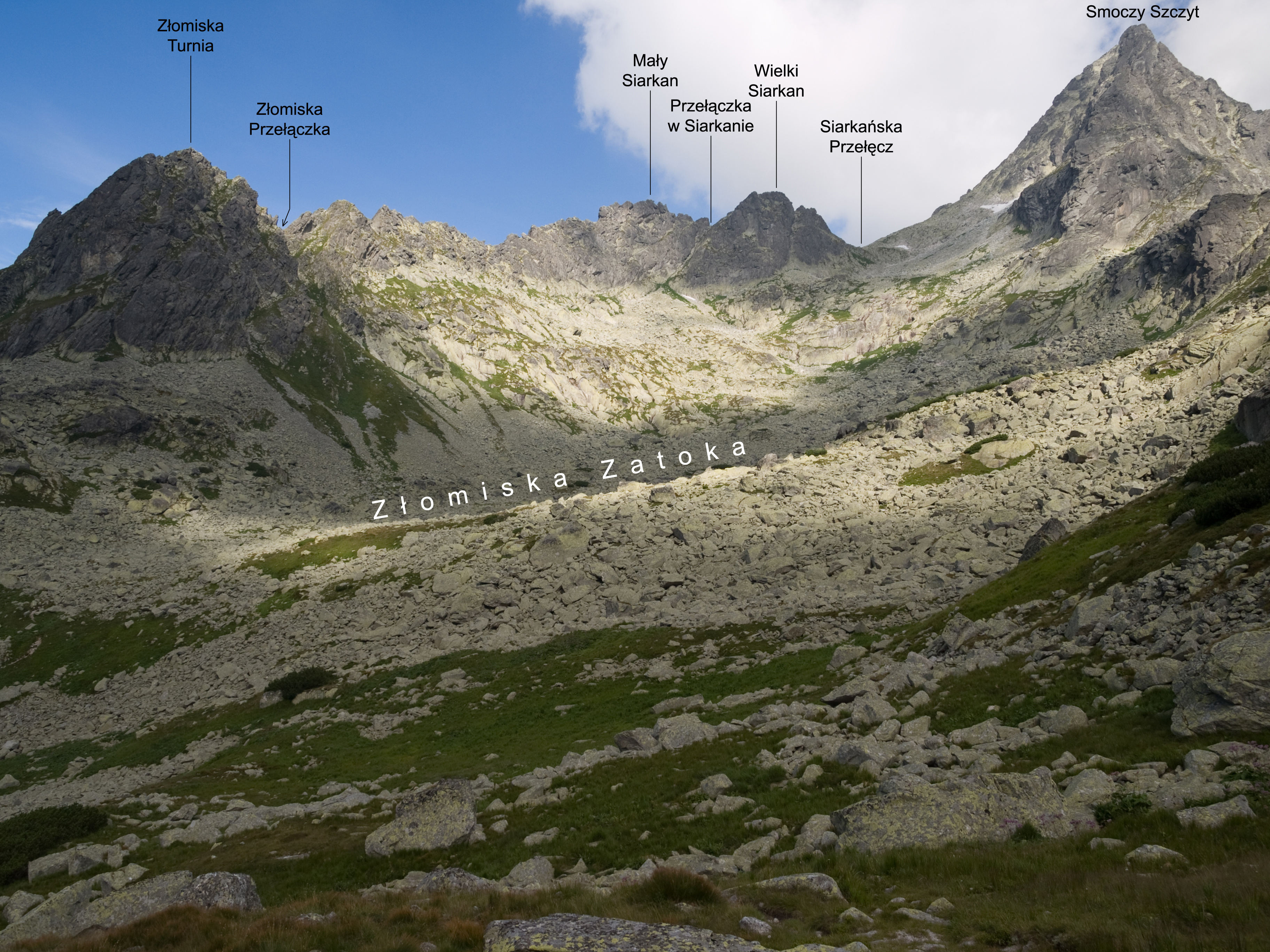 Dračí hrebeň and Dračí štít – view from kotlina pod Dračím sedlom (Polish captions).